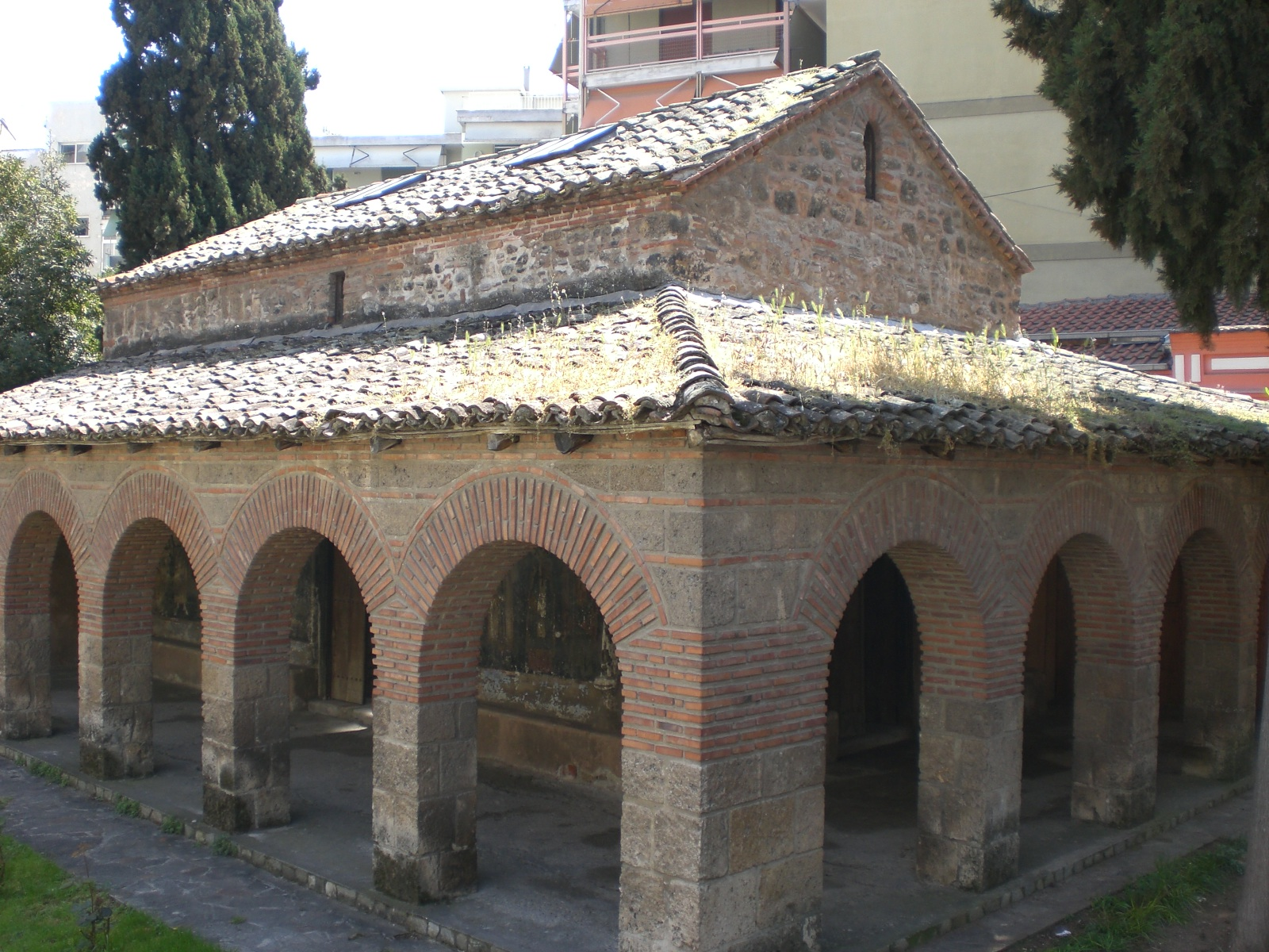 Resurrection of Christ Church exterior, Veria